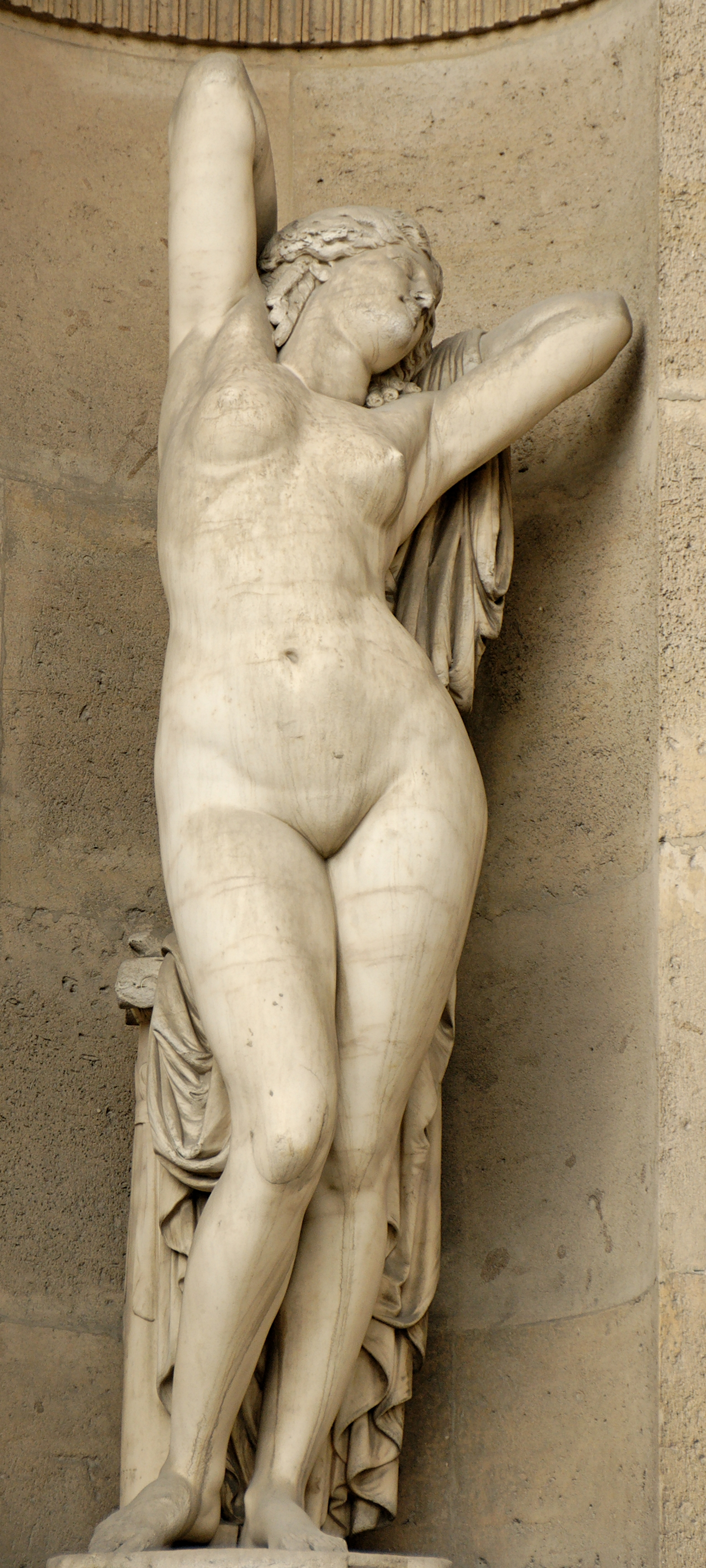 Phryne by Élias Robert (1821-1874). Marble, 1855. North façade of the Cour Carrée, Louvre, Paris.